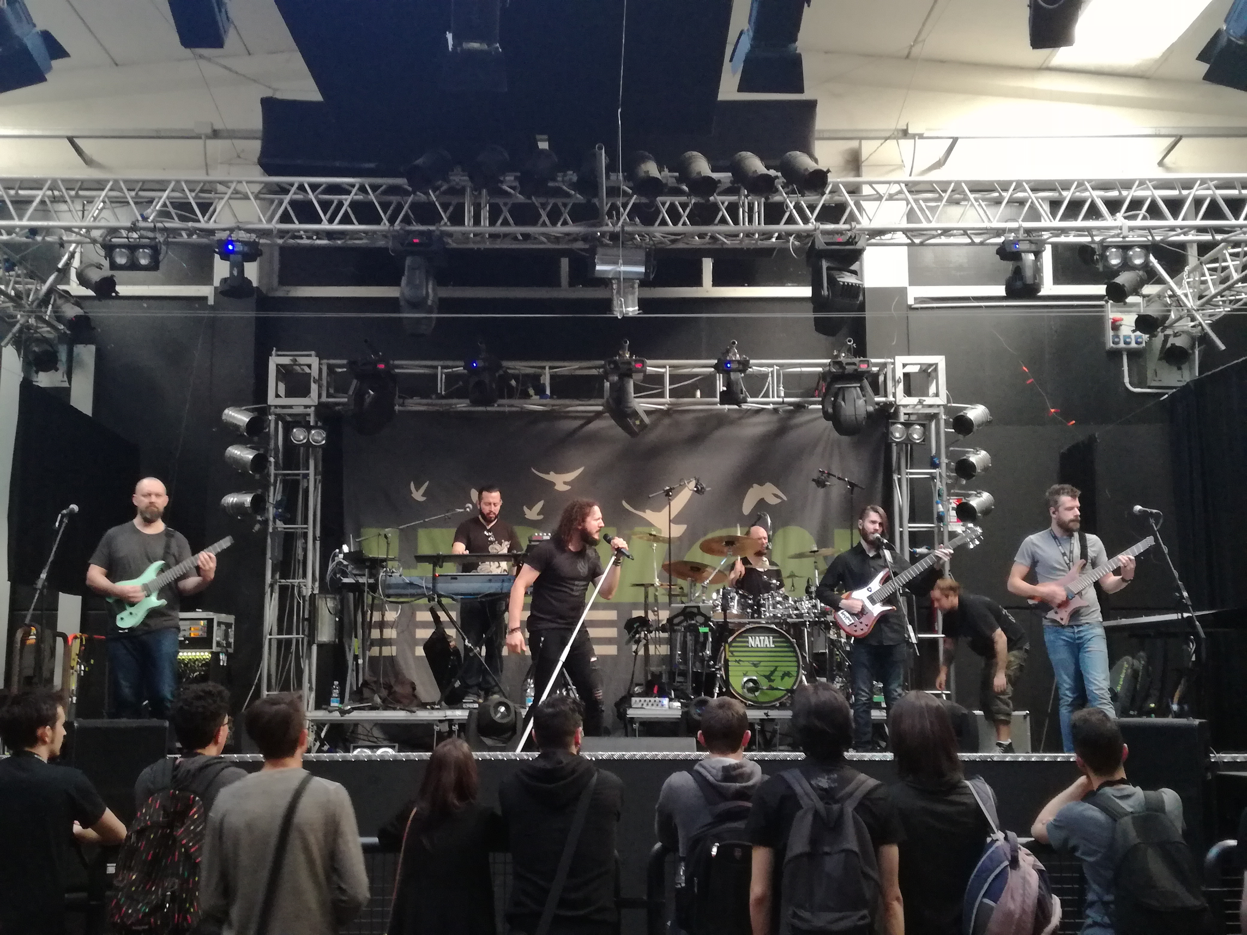 Haken live on stage in Bologna on April 3, 2017, during the soundcheck